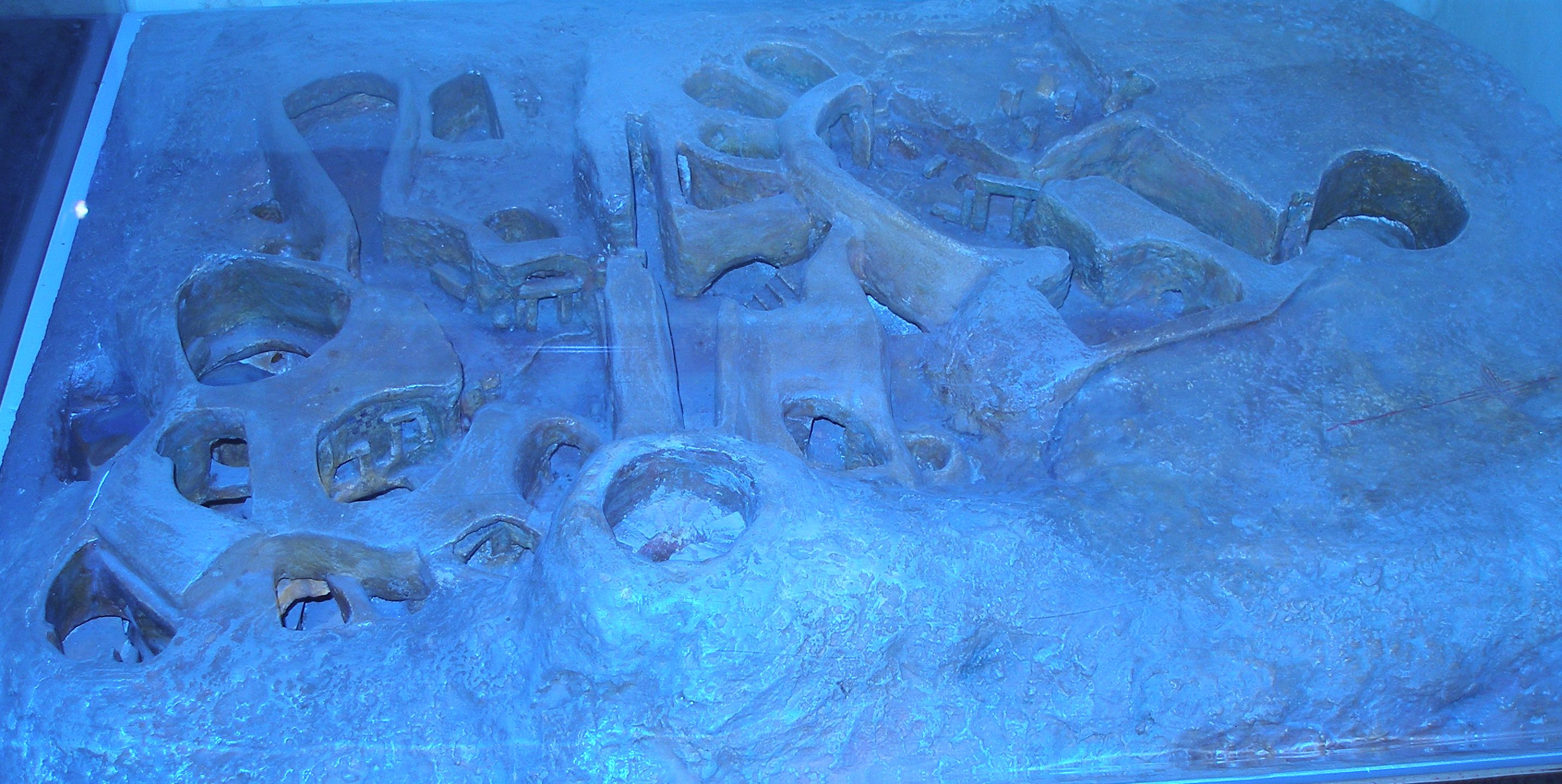 A model of Hypogeum that is a part of the exhibition at the National Museum of Archeology in Valetta.